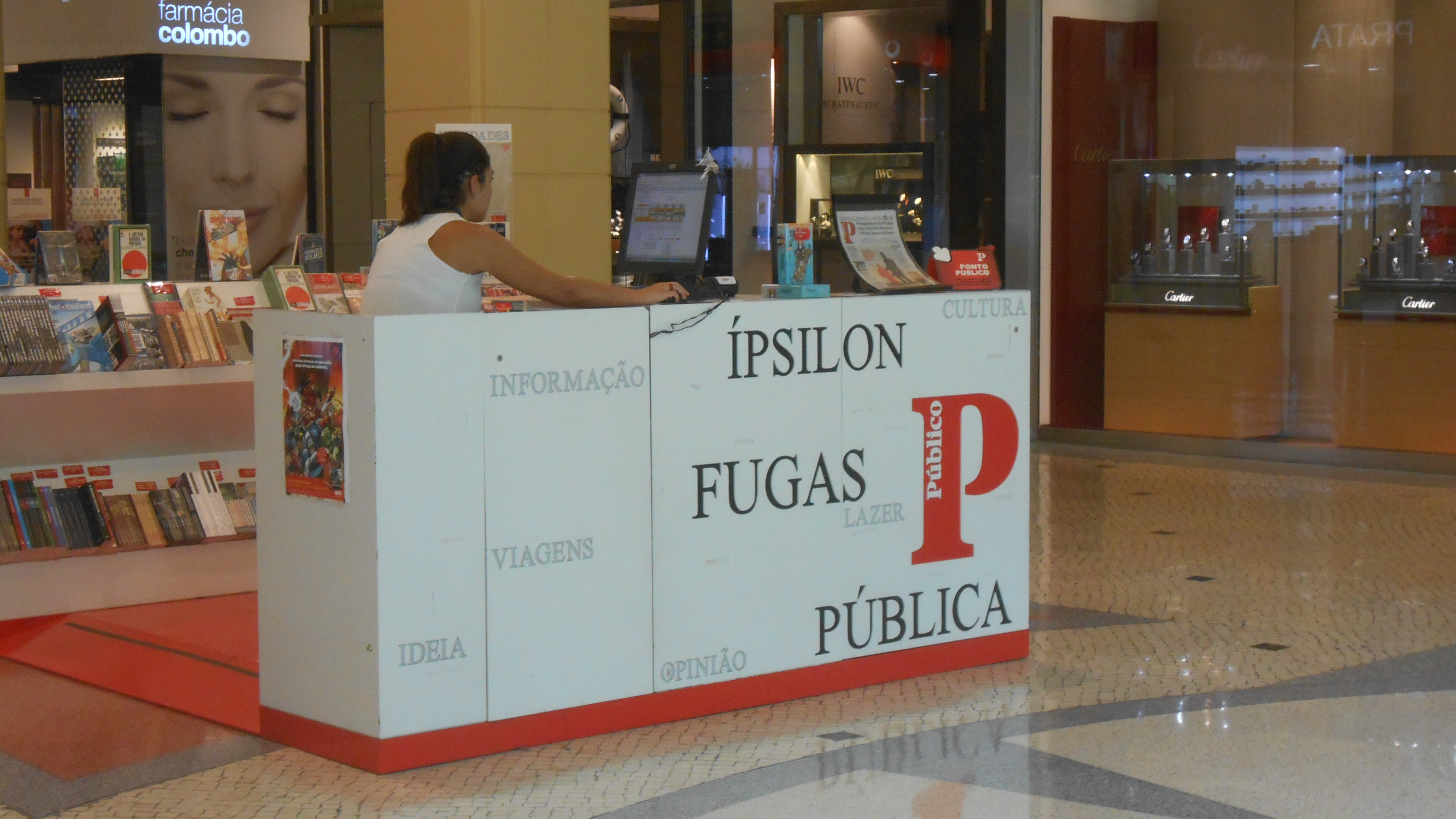 Stand of the portuguese newspaper Público in the Colombo Shopping Centre in Lisbon, august 2014.